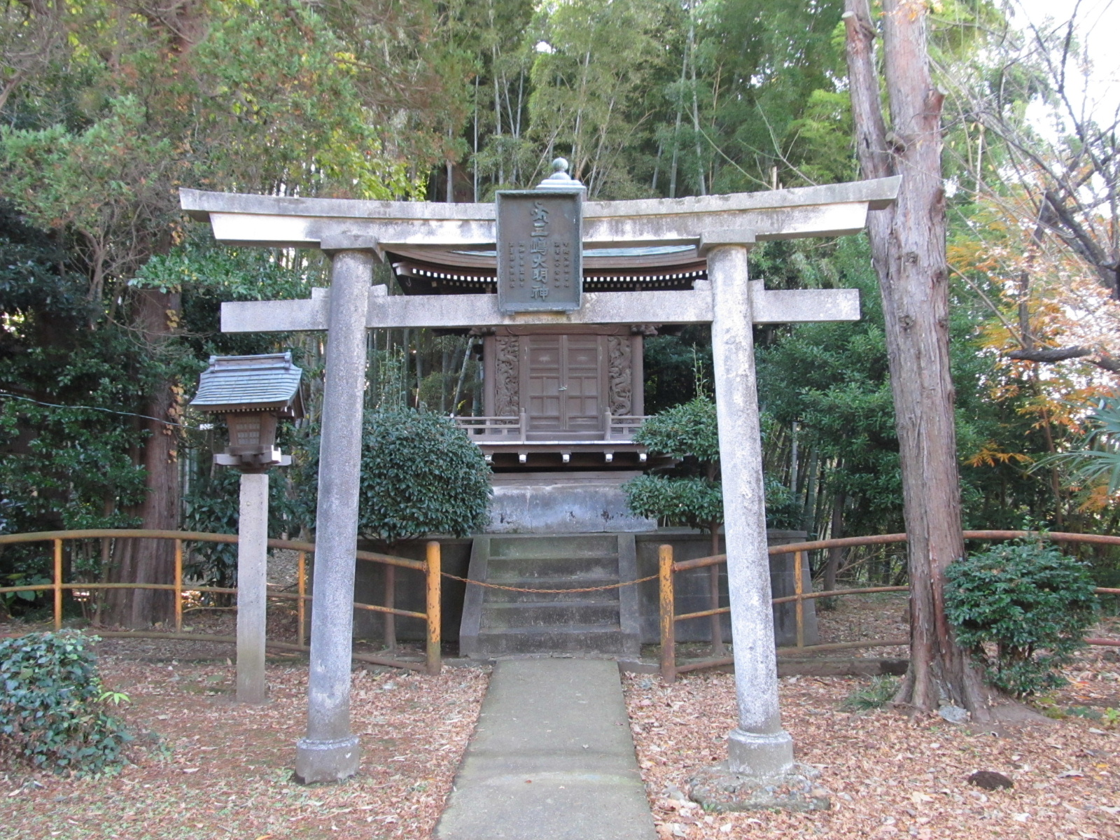 Mishima-myōjin at Kannō-in in Fujisawa City, Kanagawa Prefecture, Japan